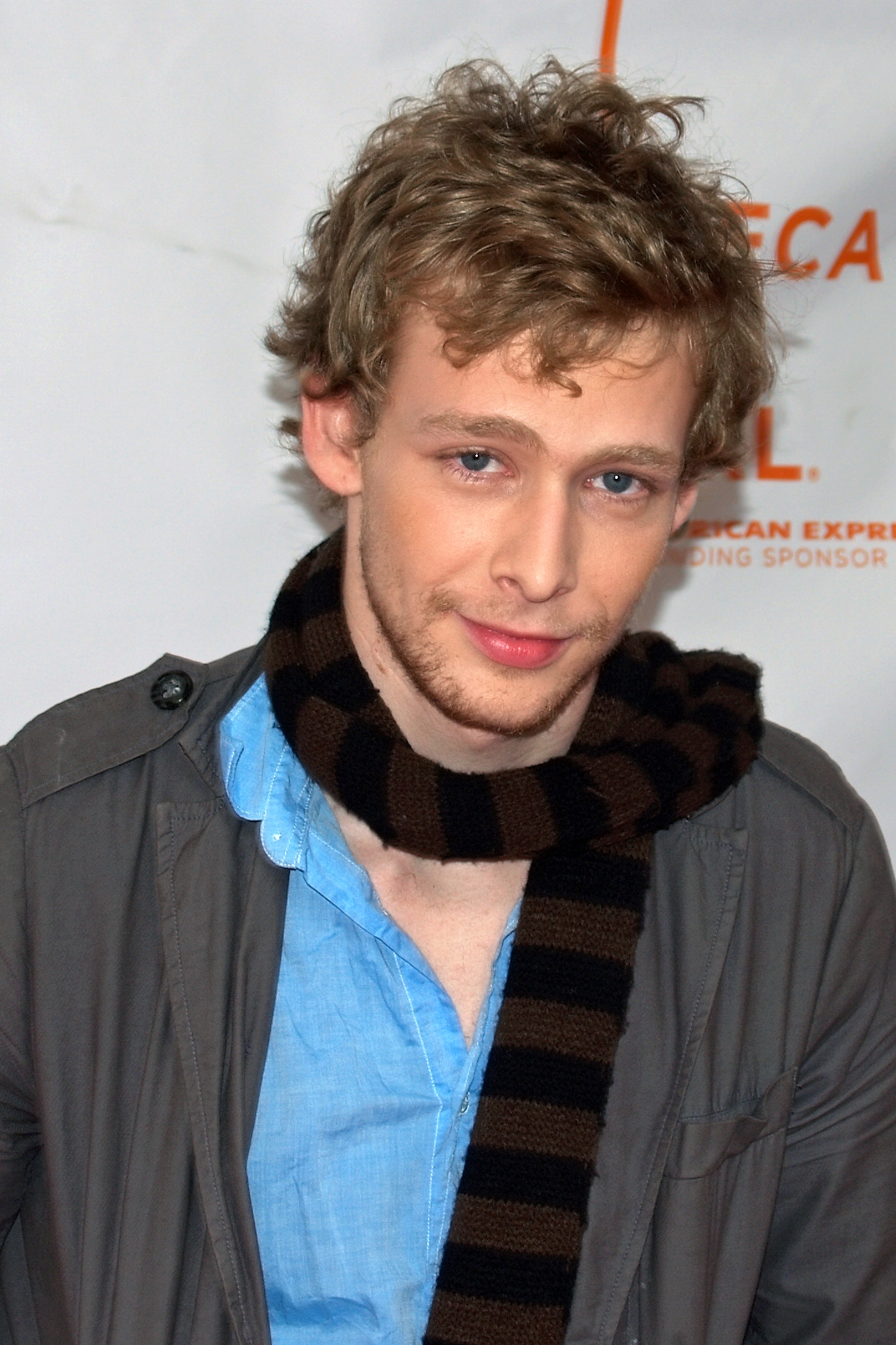 Johnny Lewis at premiere of Palo Alto at the Tribeca Film Festival